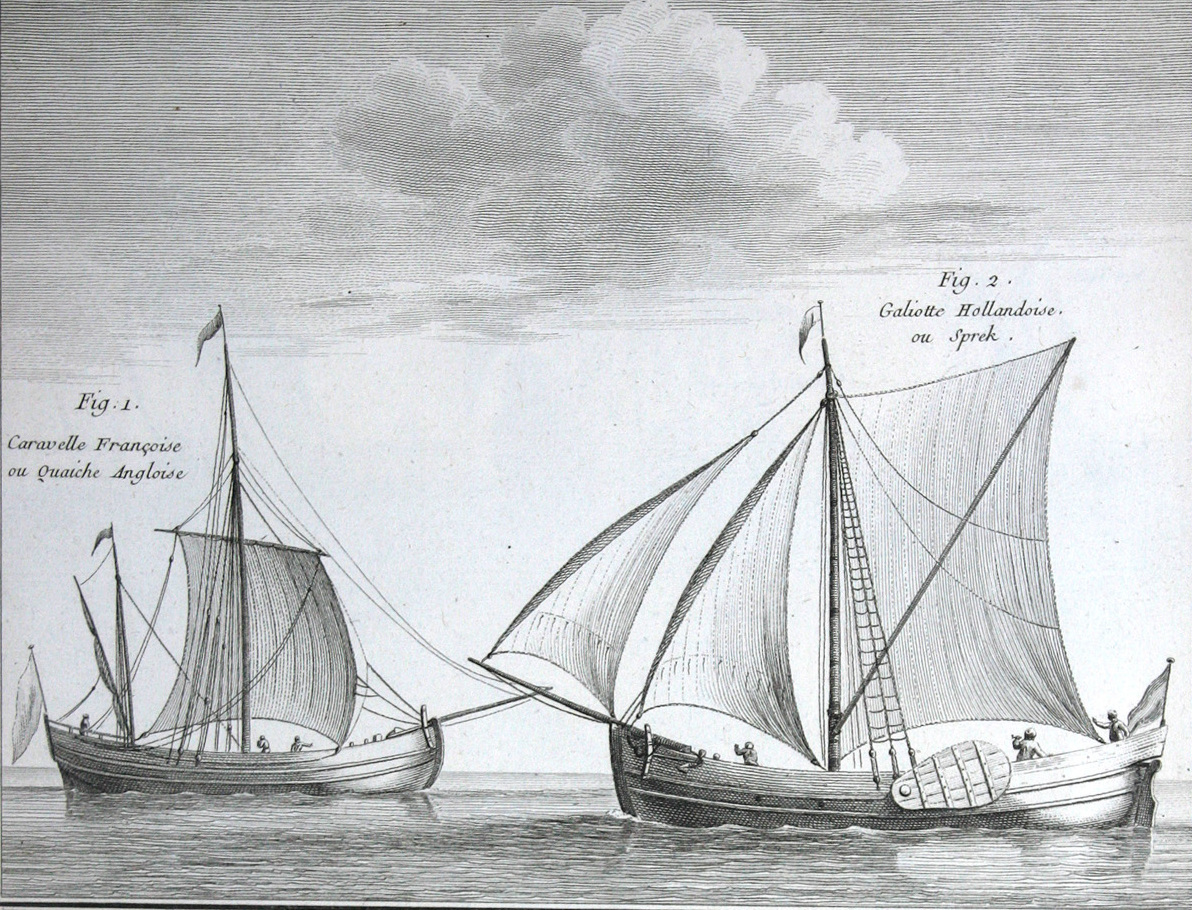 No known copyright restrictions. Please credit UBC Library as the image source. For more information, Alternative Title: Part 2, Section 3, Plate 5 Description: [N.B. The explication for this plate is listed as VI in the text.] Figure 1. Caravelle Françoise, qui differe peu de la Quaiche Angloife. Figure 2. Galiote Hollandoise ou Sprek. Figure 3. Frégate garde-pêche, armée en guerre. Figure 4. Petit Yacht garde-pêche. Creator: Henri-Louis Duhamel Du Monceau; Jean-Louis De La Marre Date Created: 1769-1782 Source: Traité général des pesches: et histoire des poisons qu'elles fournissent, tant pour la subsistance des hommes, que pour plusieurs autres usages qui ont rapport aux arts et au commerce. Permanent URL